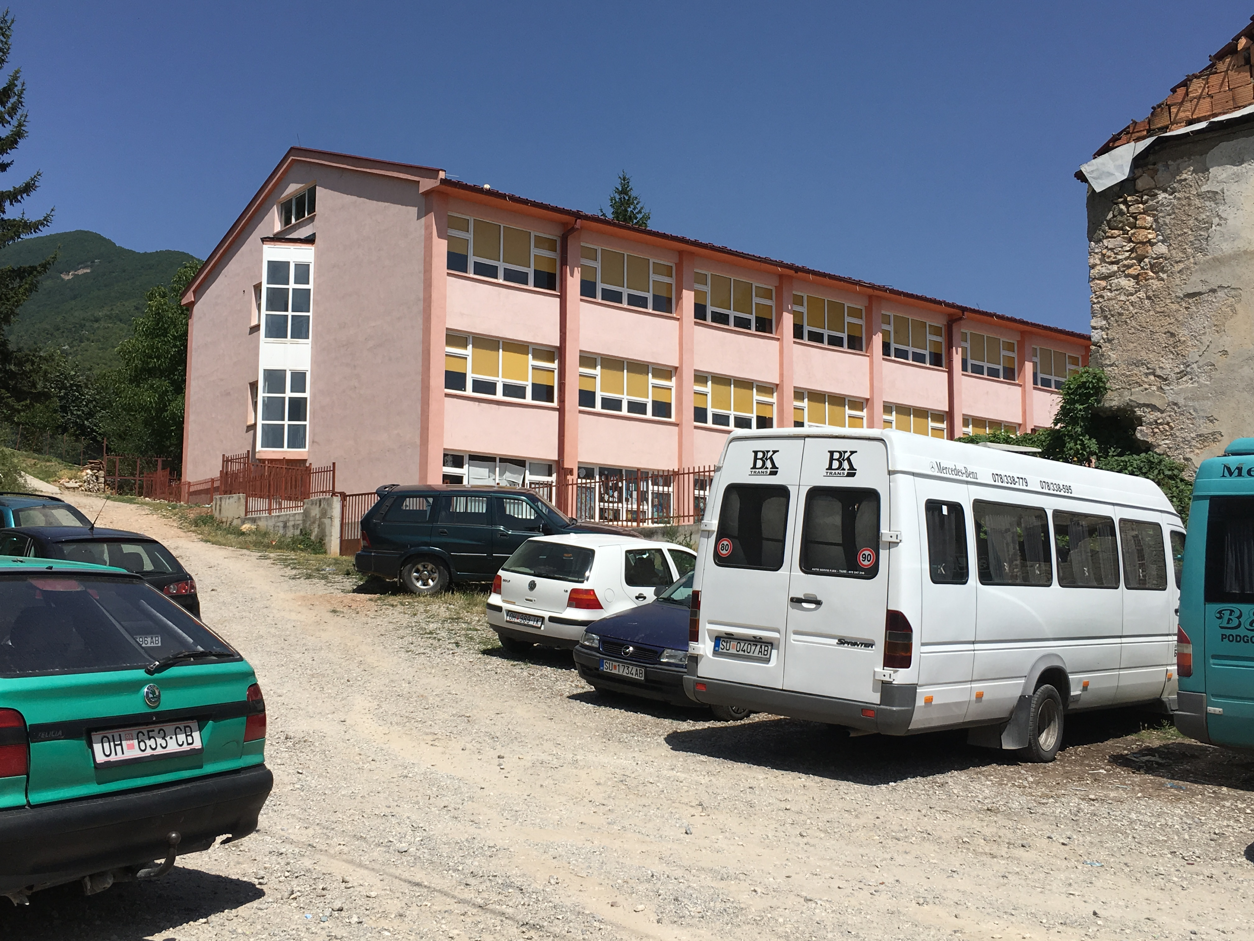 Goce Delčev Primary School in the village of Podgorci